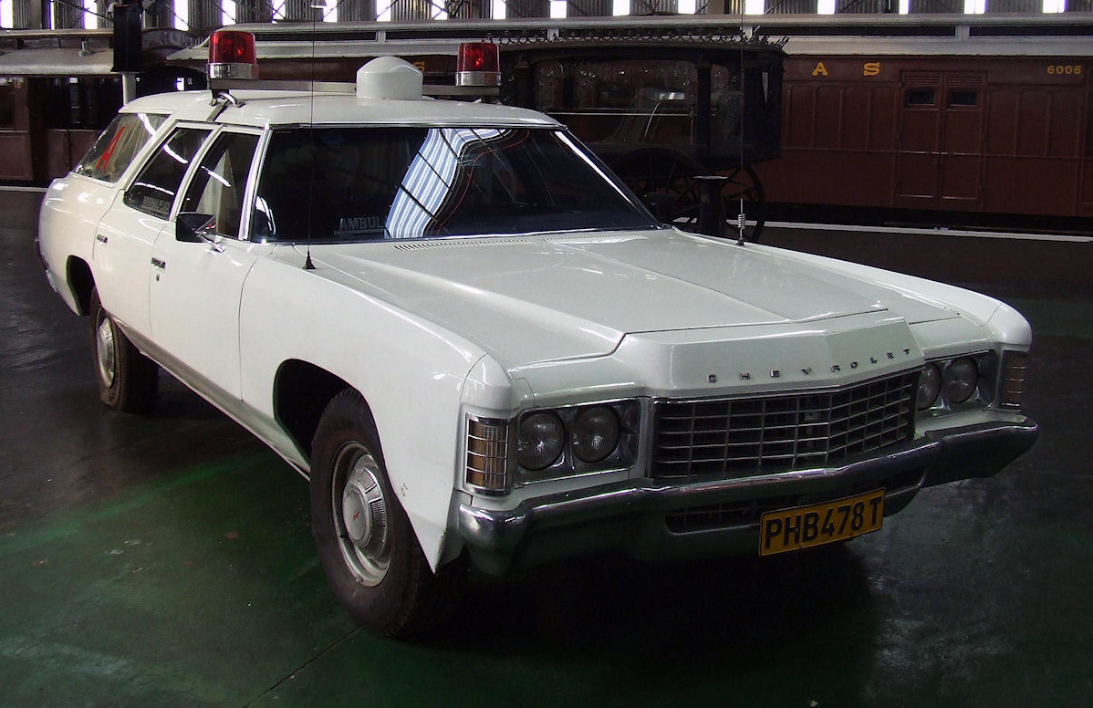 1971 Chevrolet Brookwood ambulance at the Outeniqua Railway Museum, George, South Africa